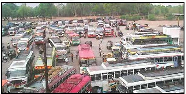 lalitpur